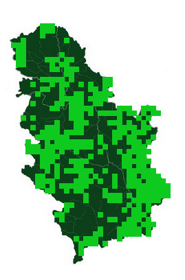 Plebejus argus - distribution map of Serbia